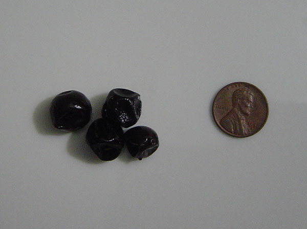 The guavaberry or rumberry (Myrciaria floribunda or Eugenia Floribunda) is a fruit tree which grows in the Caribbean. The guavaberry, which should not be confused with the guava, is a close relative of Camu Camu.